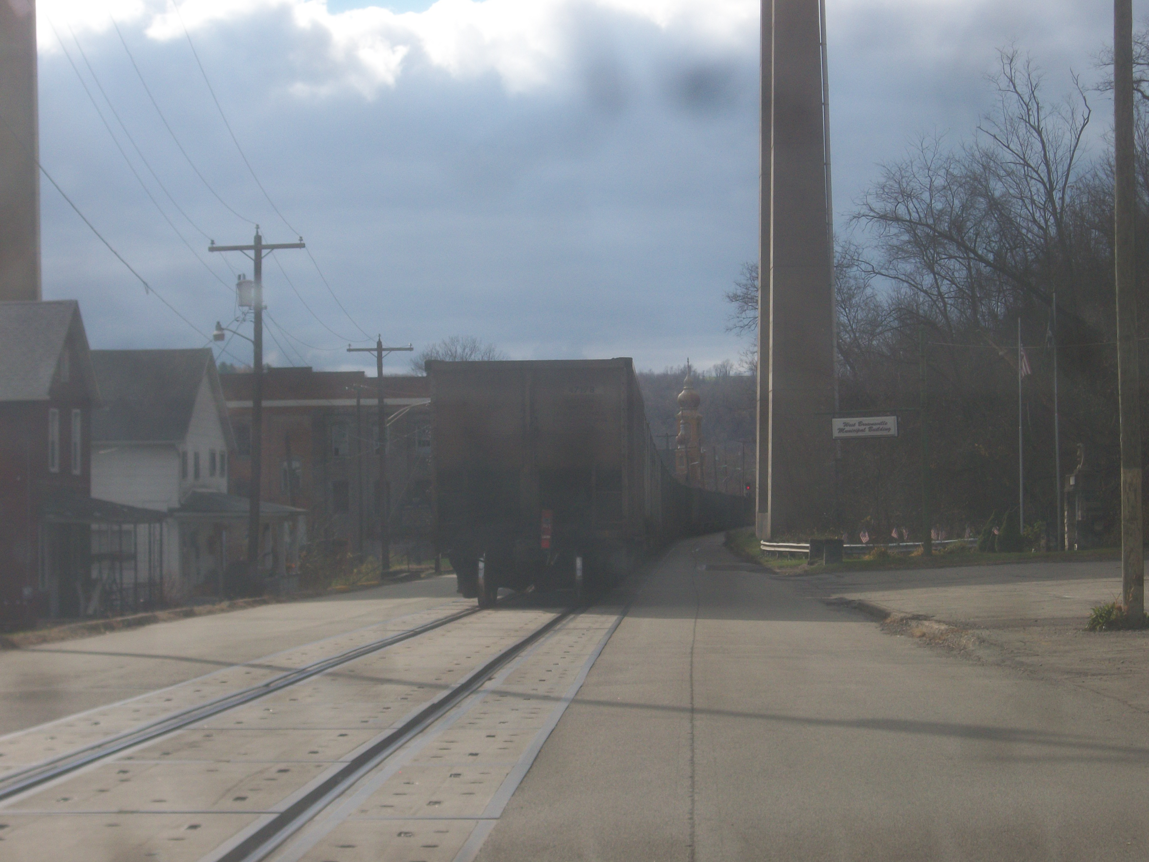 Following a coal train through West Brownsville.